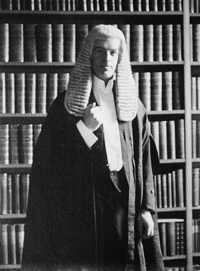 Hugh Pattison Macmillan (1873 – 1952), Scottish judge.